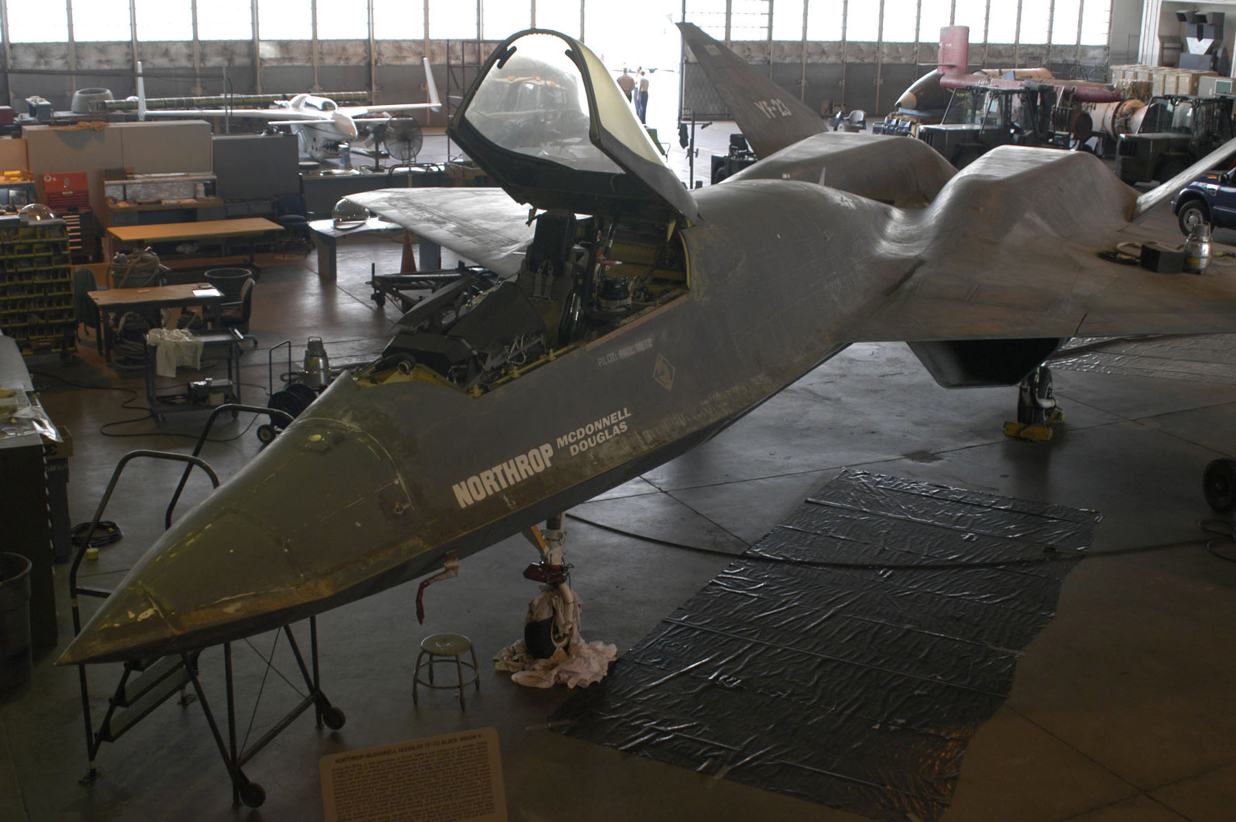 YF-23 in the restoration area of the usaf museum